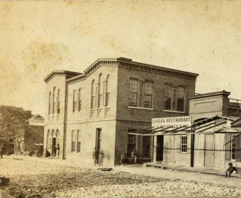 View along North College Street in Nashville, Tennessee, United States, with Sherman's Saloon on the far left, and the Eureka Restaurant and G.W. Rothwell & Son on the right.